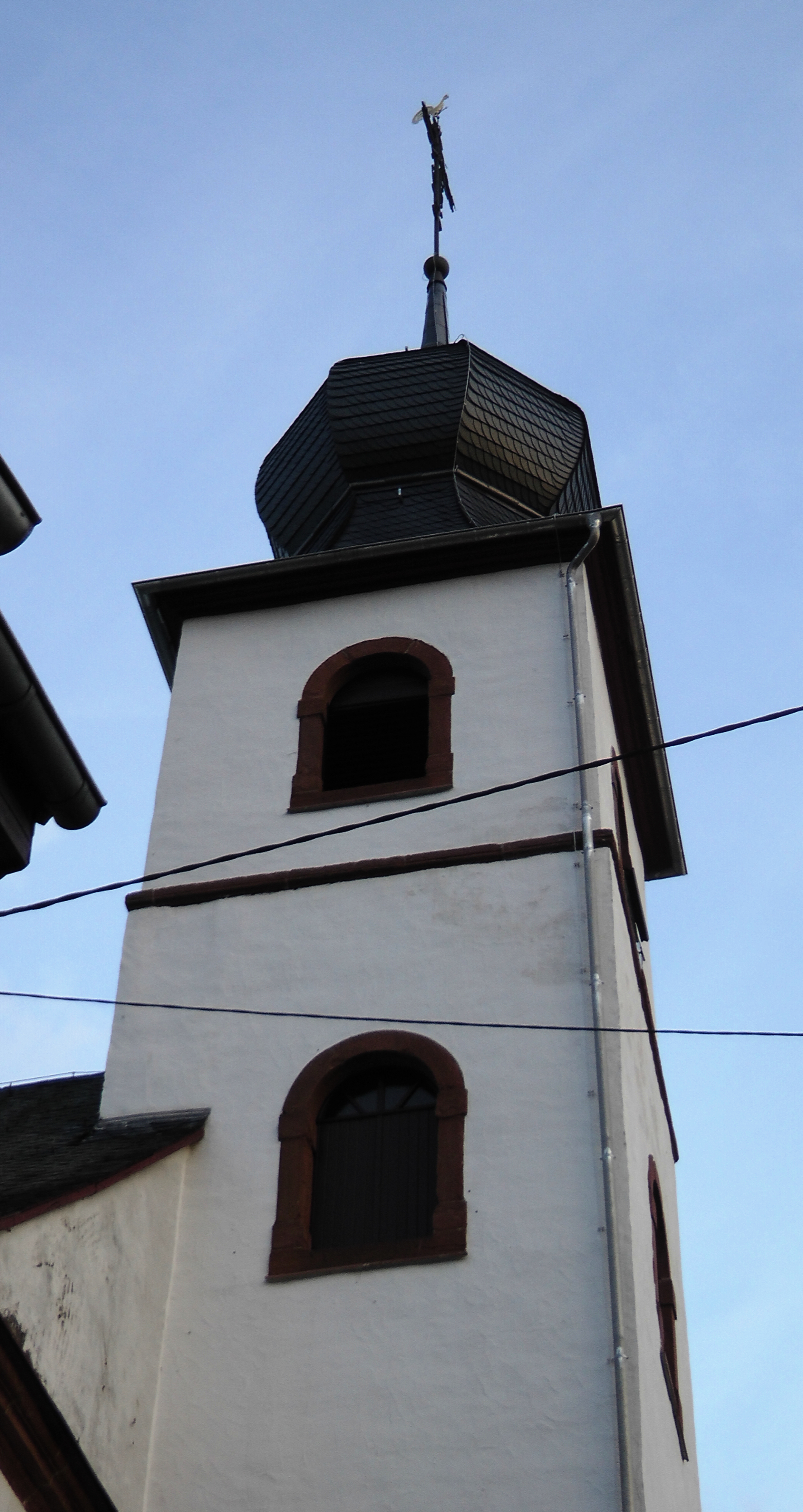 Simultaneum Brauneberg - tower